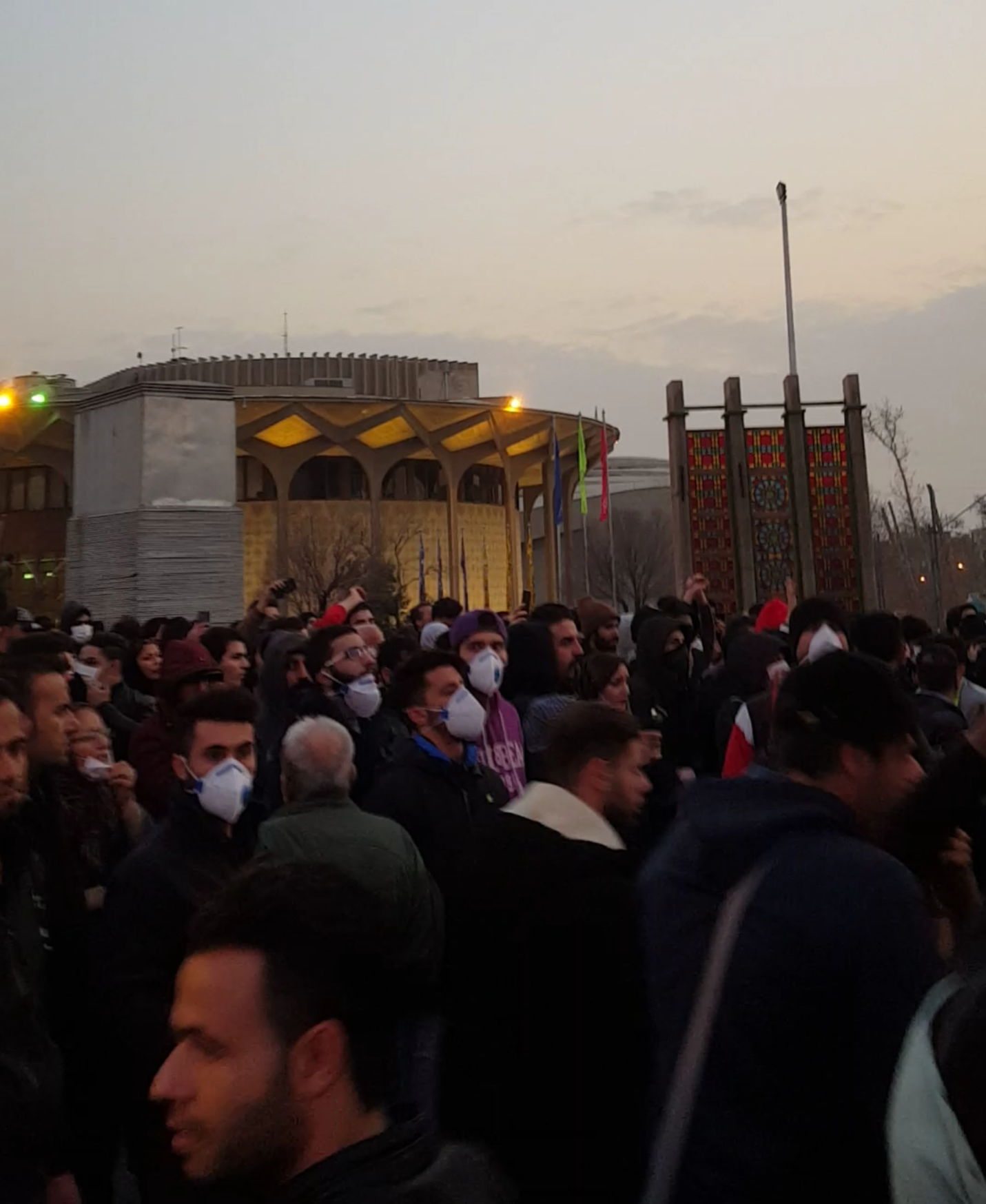 Iranians protest against establishment's actions